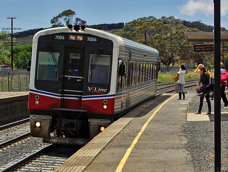 Sprinter 7004 stops at Wallan.